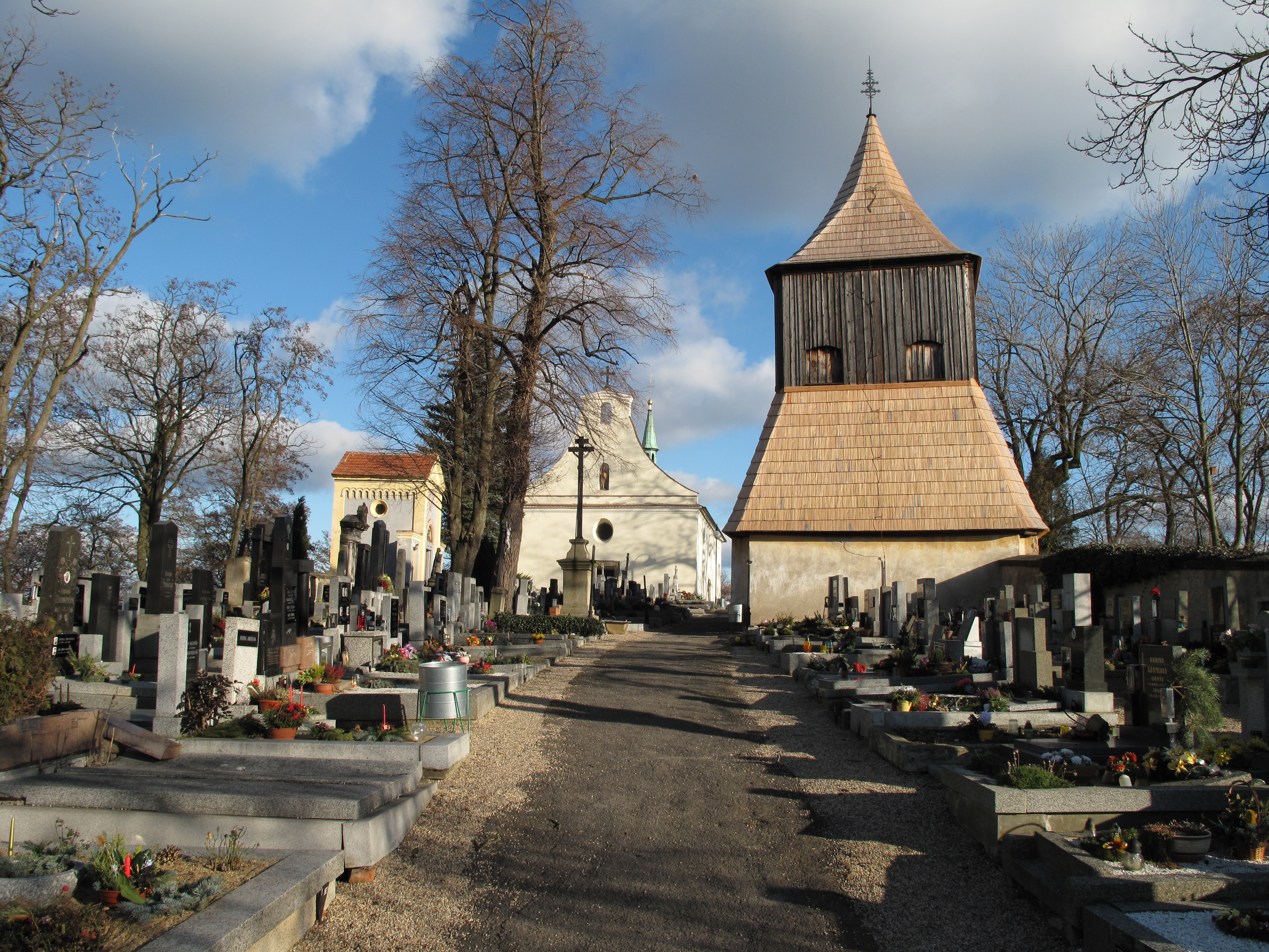 Church of Our Lady in Tuřany village, Kladno District, Czech Republic.